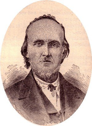 Isaac Murphy, 8th Governor of Arkansas